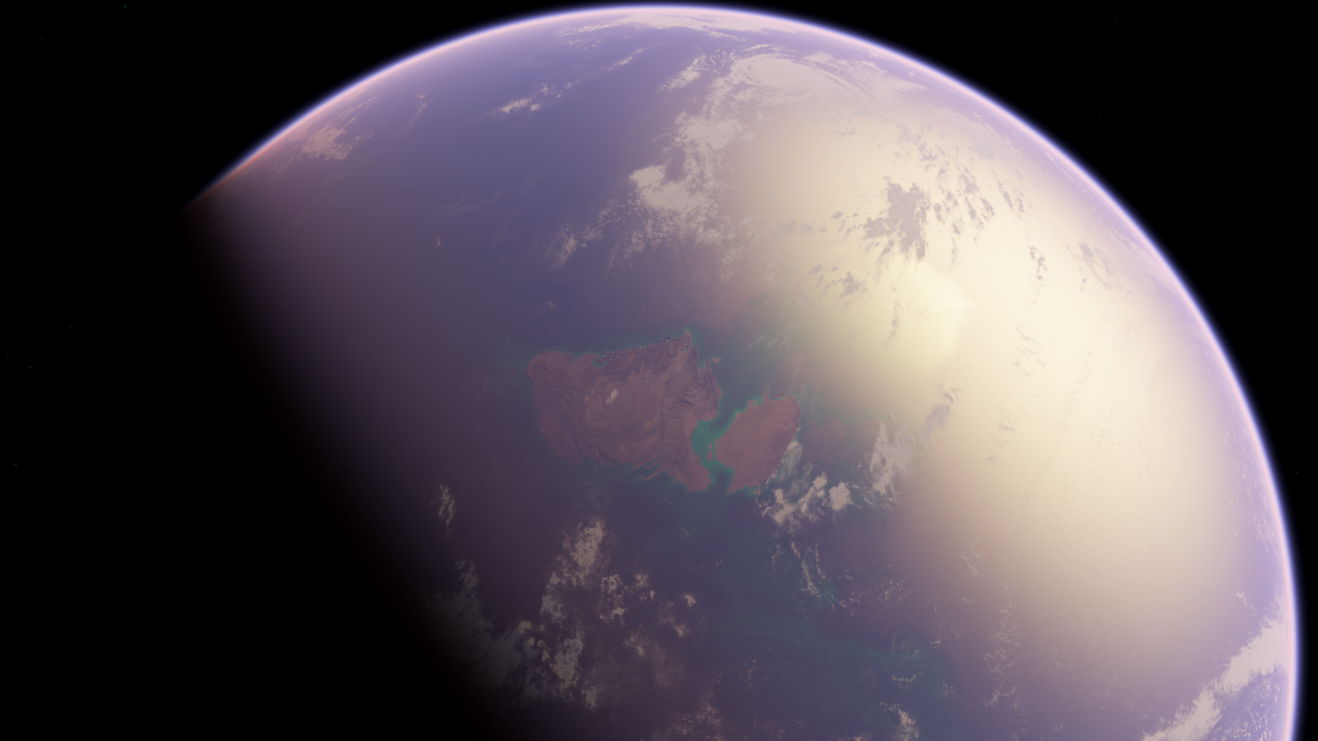 Reconstruction of Vaalbara supercontinent